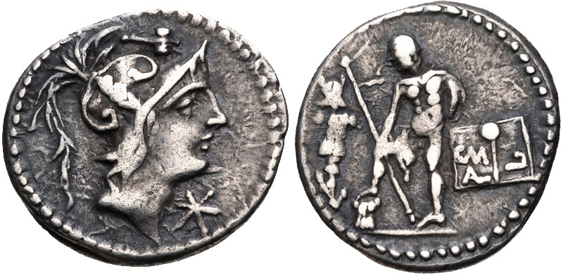 C. Publicius Malleolus C.f. 118 BC. AR Denarius (20mm, 3.82 g, 9h). Rome mint. Helmeted head of Mars right; mallet above, X (mark of value) below chin / Heroic figure standing left, foot on cuirass, holding spear and leaning on tabella divided into two compartments, in one CM/(AL) in two lines, in the other a Π, retrograde and sideways; trophy in left field. Crawford 335/3f; Sydenham 615b; Poblicia 8. Near VF, toned, some porosity.